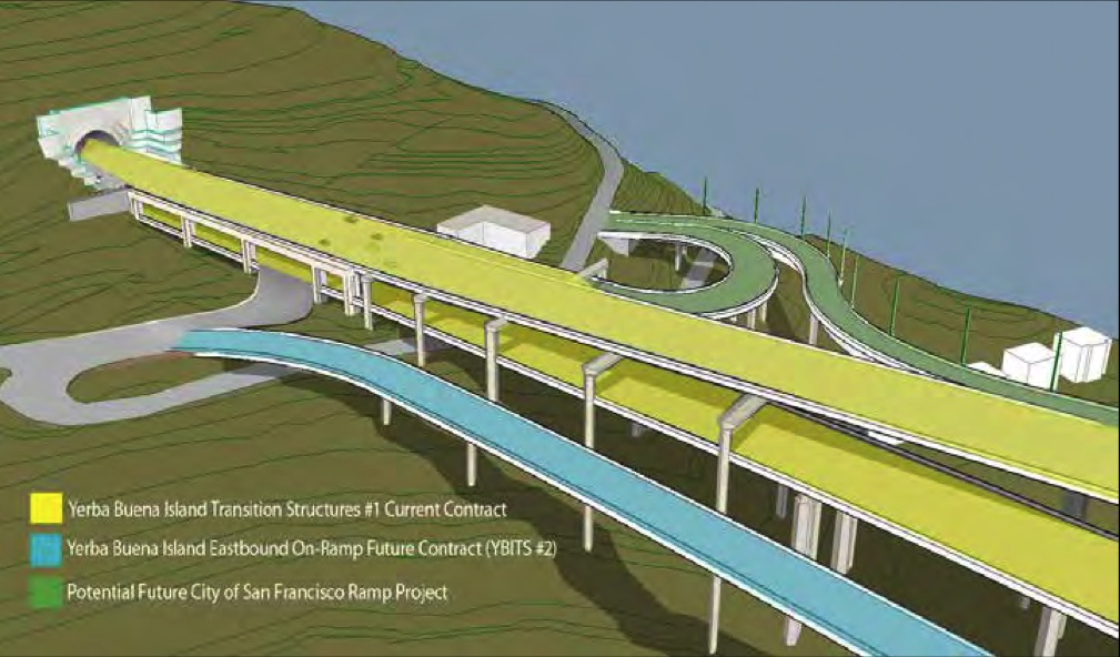 Proposed ramp design for Yerba Buena Island access